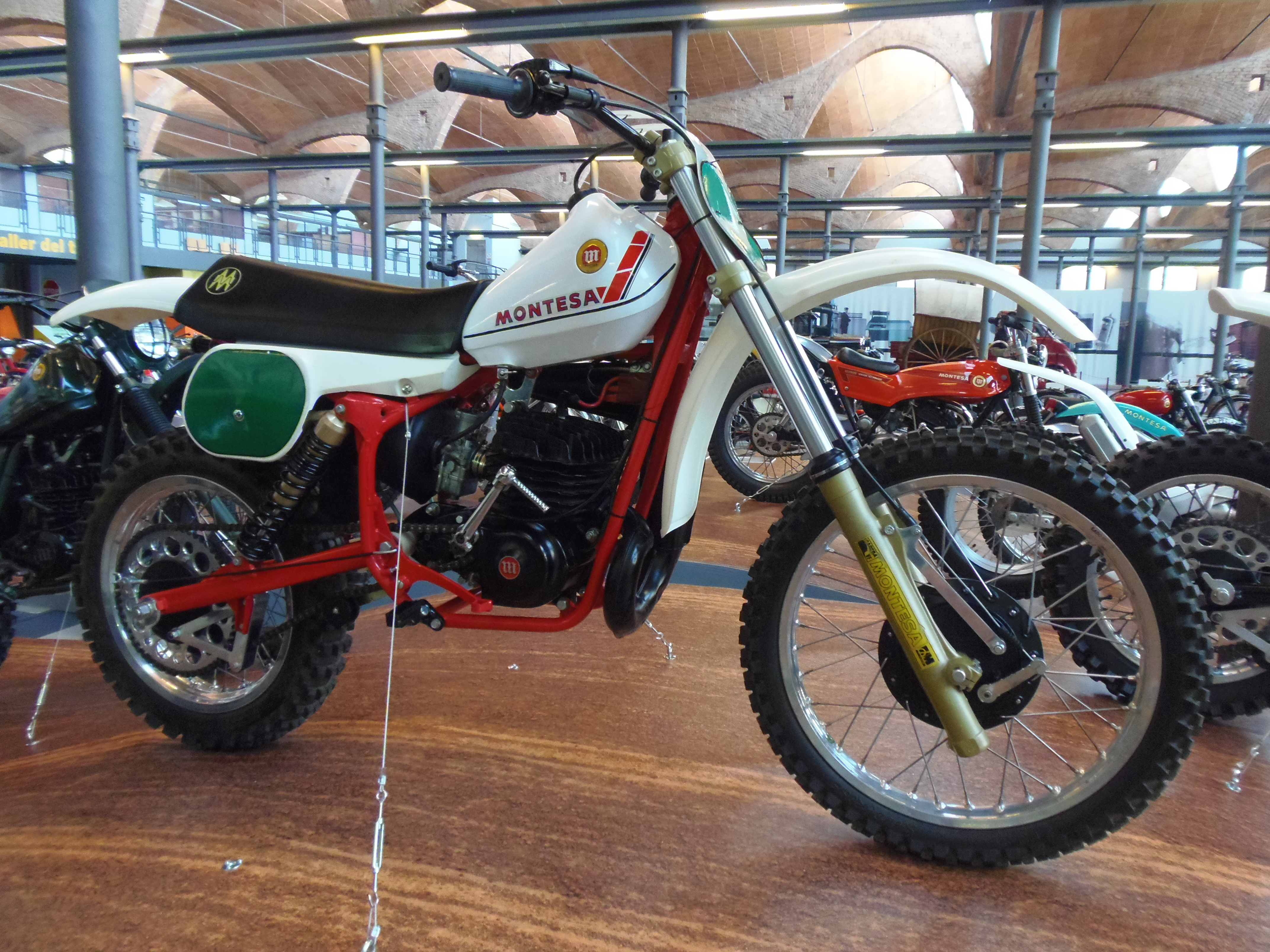 Montesa Cappra VG 250, 1981